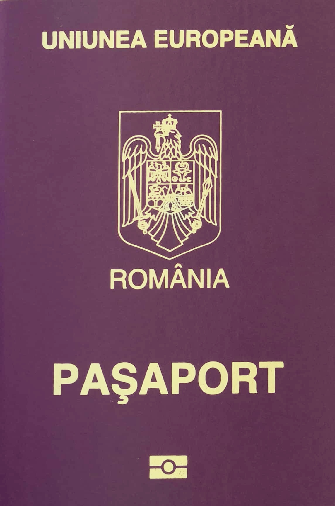 Romanian New Passport Cover 2019